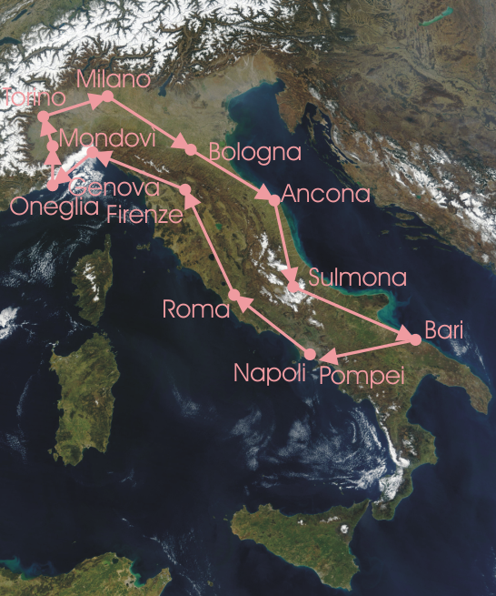 Map of Italy highlighting the stages of 1911 Giro d'Italia